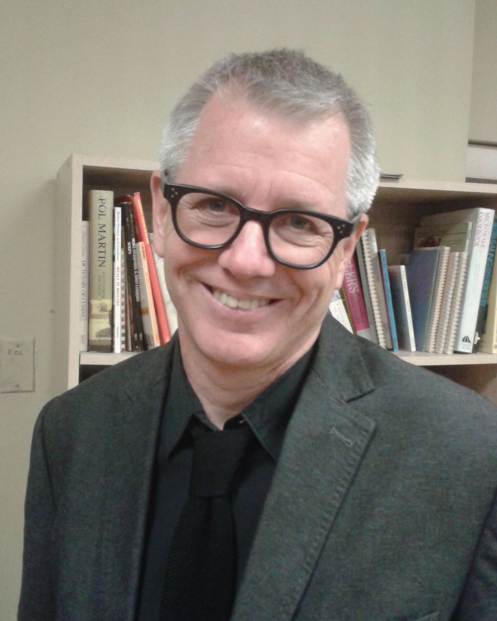 Member of Parliament, Adam_Vaughn